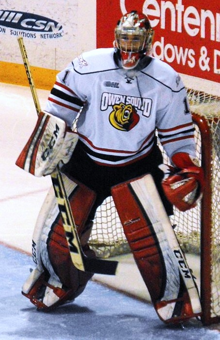 These pictures were taken by Devan Mighton in December 2013 in Owen Sound, ON, CA.